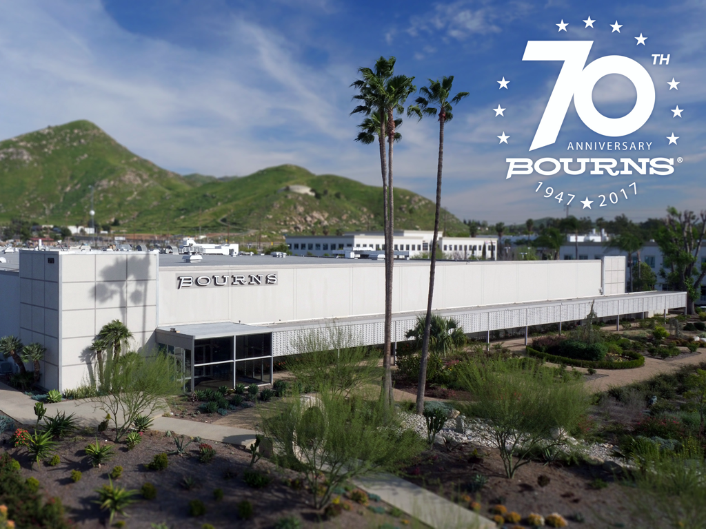 bourns